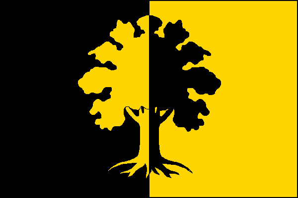 Municipal flag of Dubí town, Teplice District, Czech Republic.